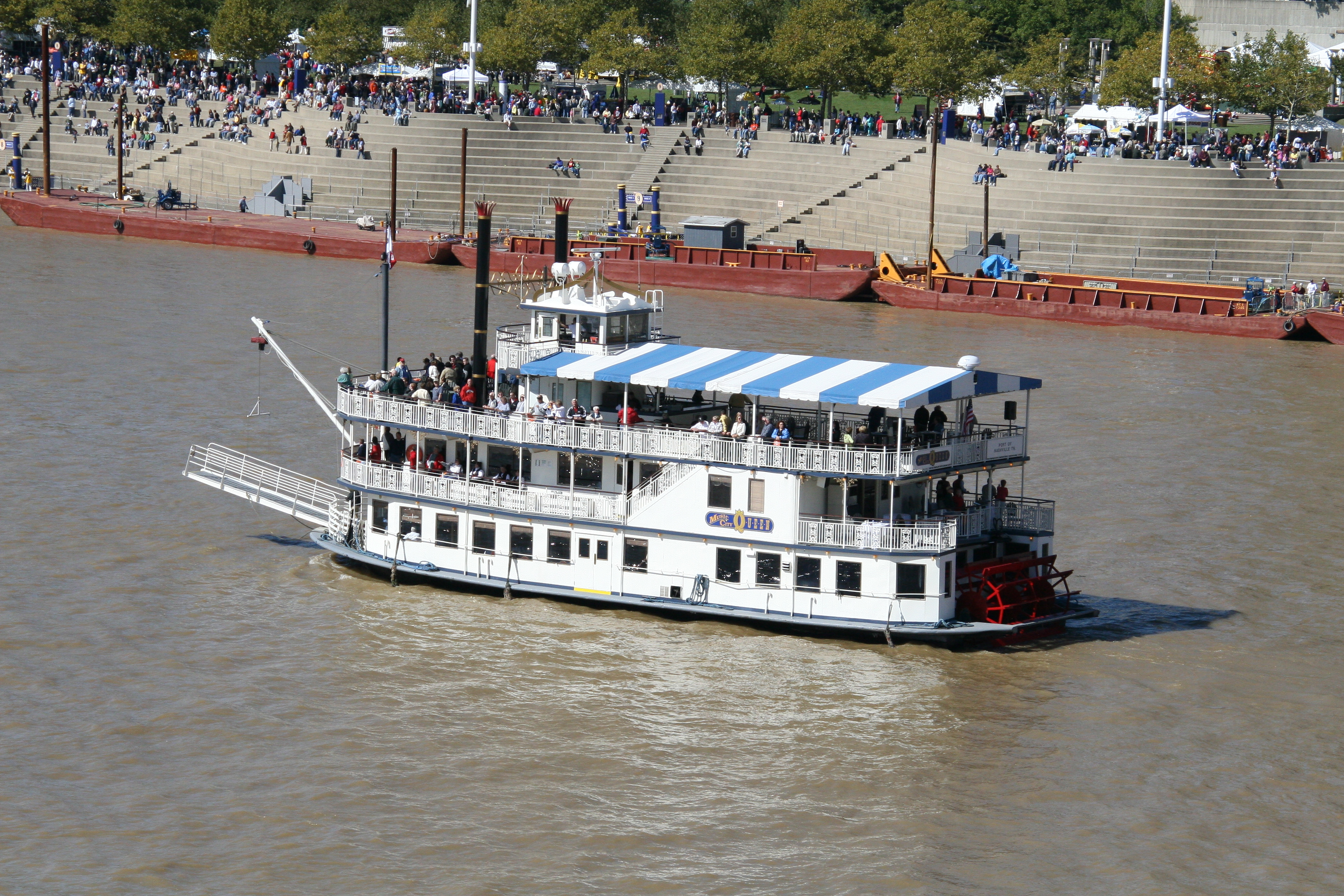 Music City Queen riverboat - taken at Tall Stacks Festival in Cincinnati.